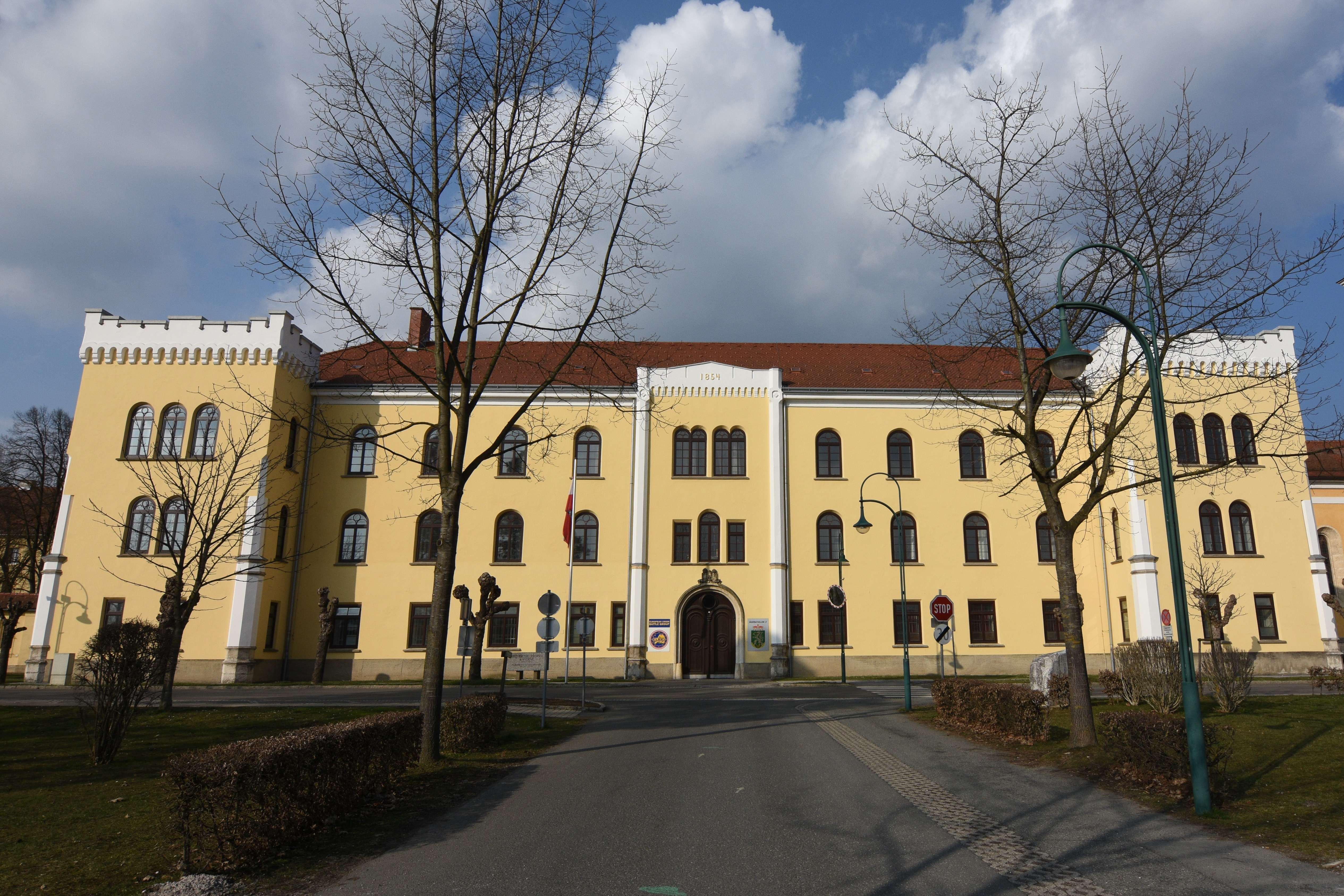 Jägerbataillon 17 (Bundesheer) Austria